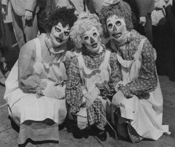 New Orleans Mardi Gras: Three women in "Raggedy Ann" street costumes.